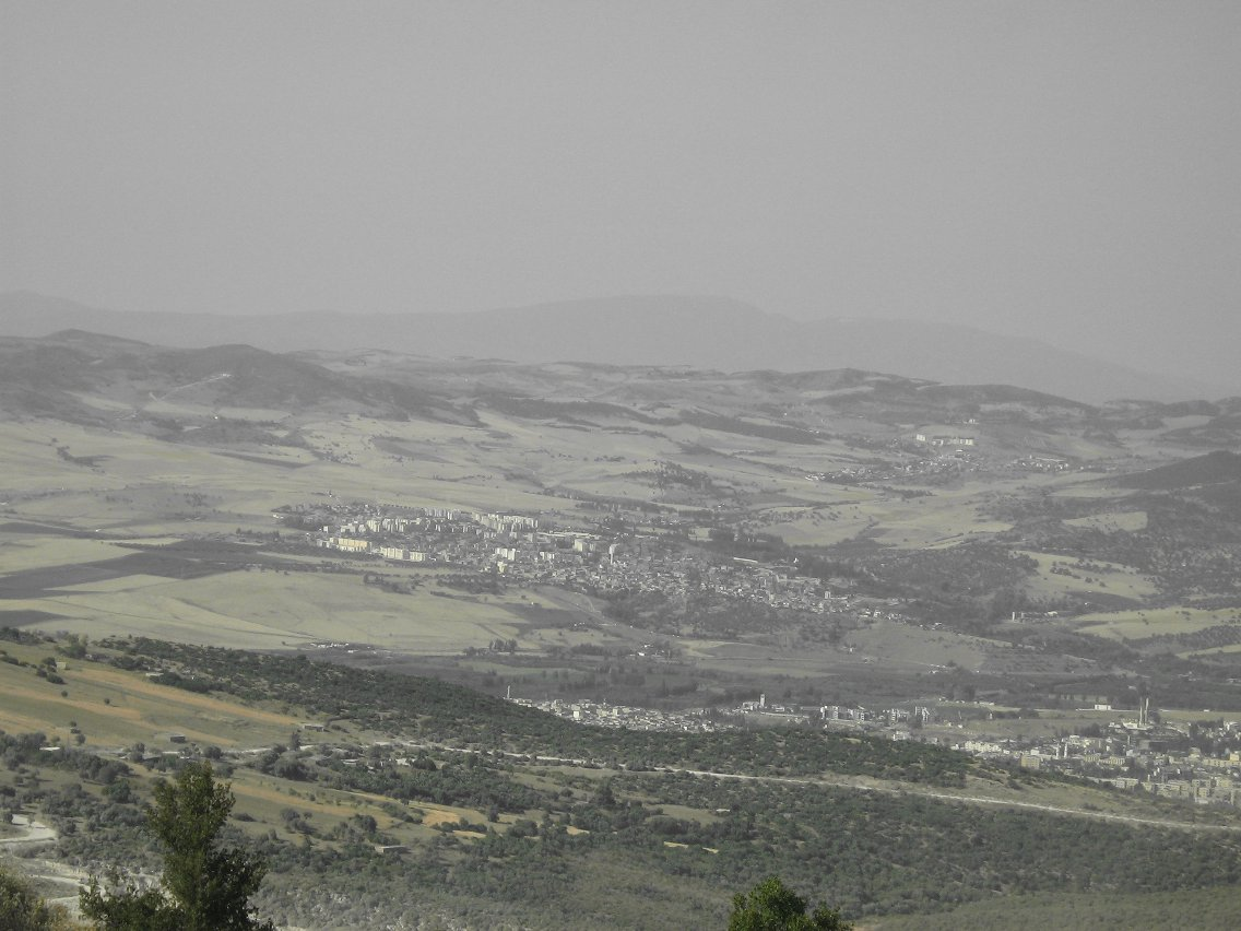 Héliopolis vu de Ben Djerrah.